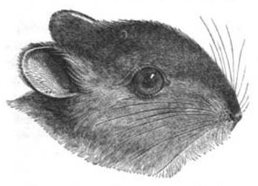 Head of the South American rodent Reithrodon auritus.